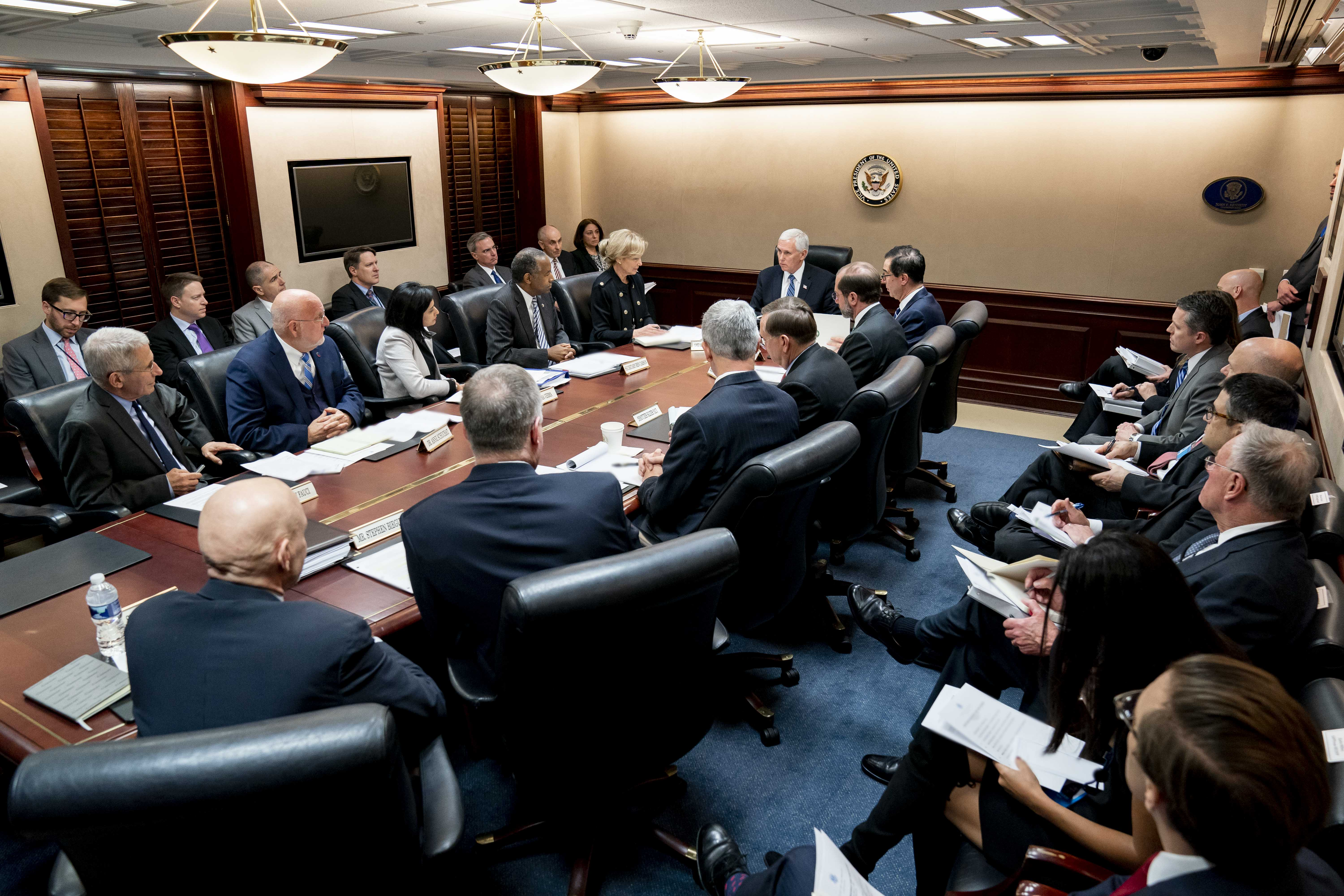 Vice President Mike Pence meets the White House Coronavirus Task Force Principals Monday, March 2, 2020, in the White House Situation Room. (Official White House Photo by Andrea Hanks)